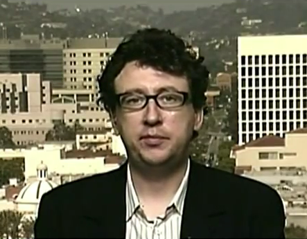 Jason Leopold on RT America on 14 March 2012